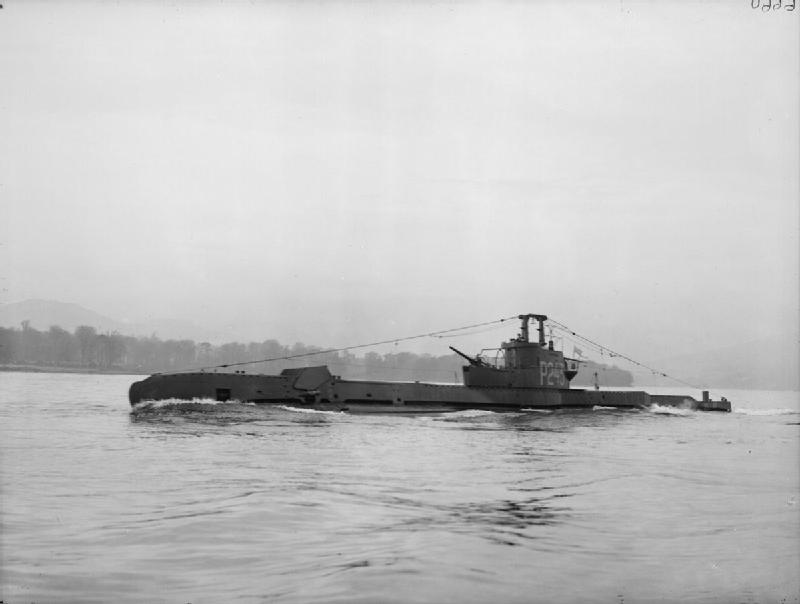 British S class submarine HMSM SCOTSMAN underway on completion